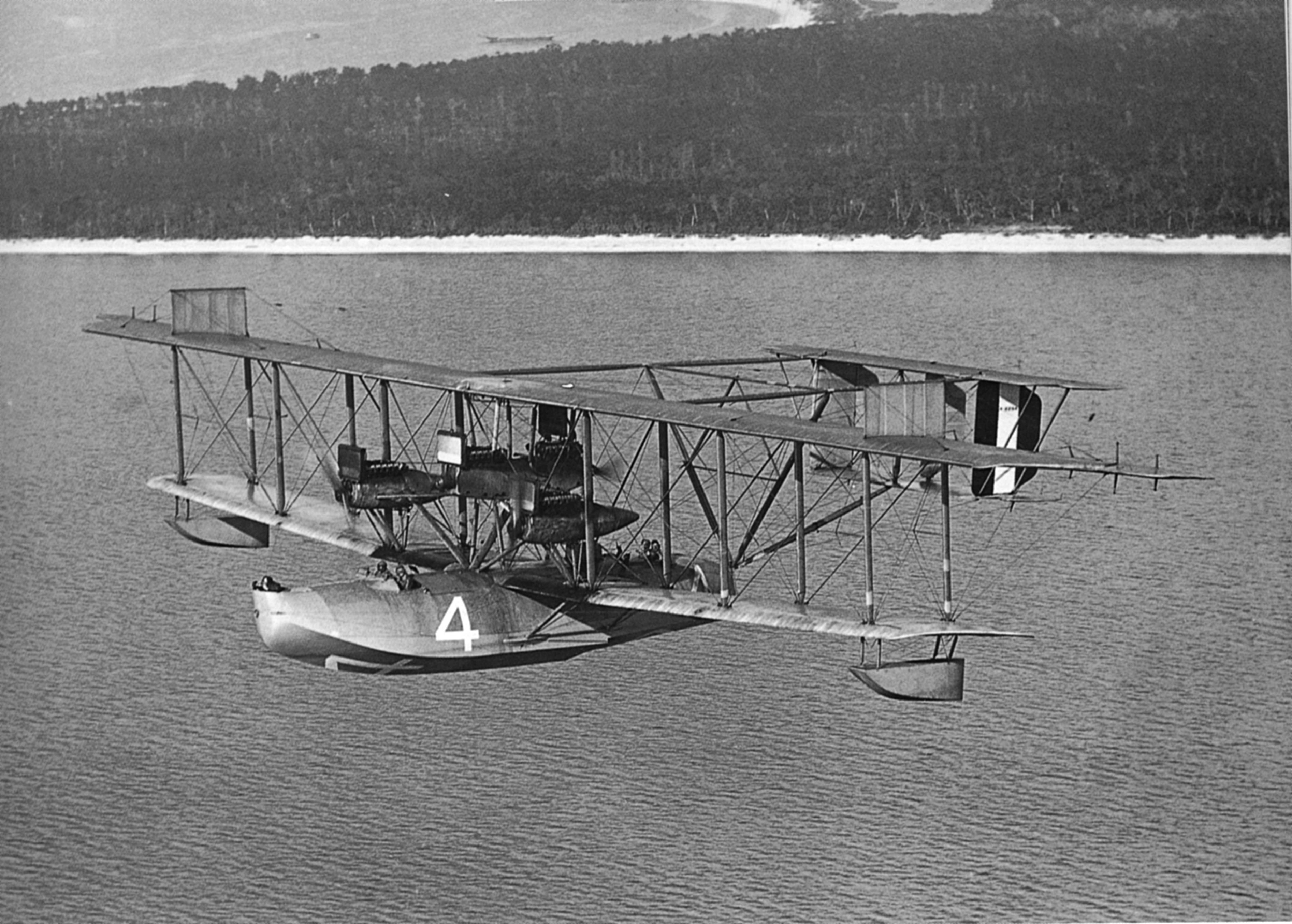 Curtiss NC seaplane. Plane number four of four built, named NC-4, sometime after the translatlantic test flight, 1919. Visible is the fourth pusher engine which was added for that flight.